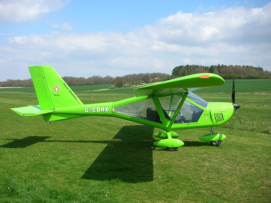 G-CDHX Aeroprakt A22 Foxbat at Popham on April 29, 2006.